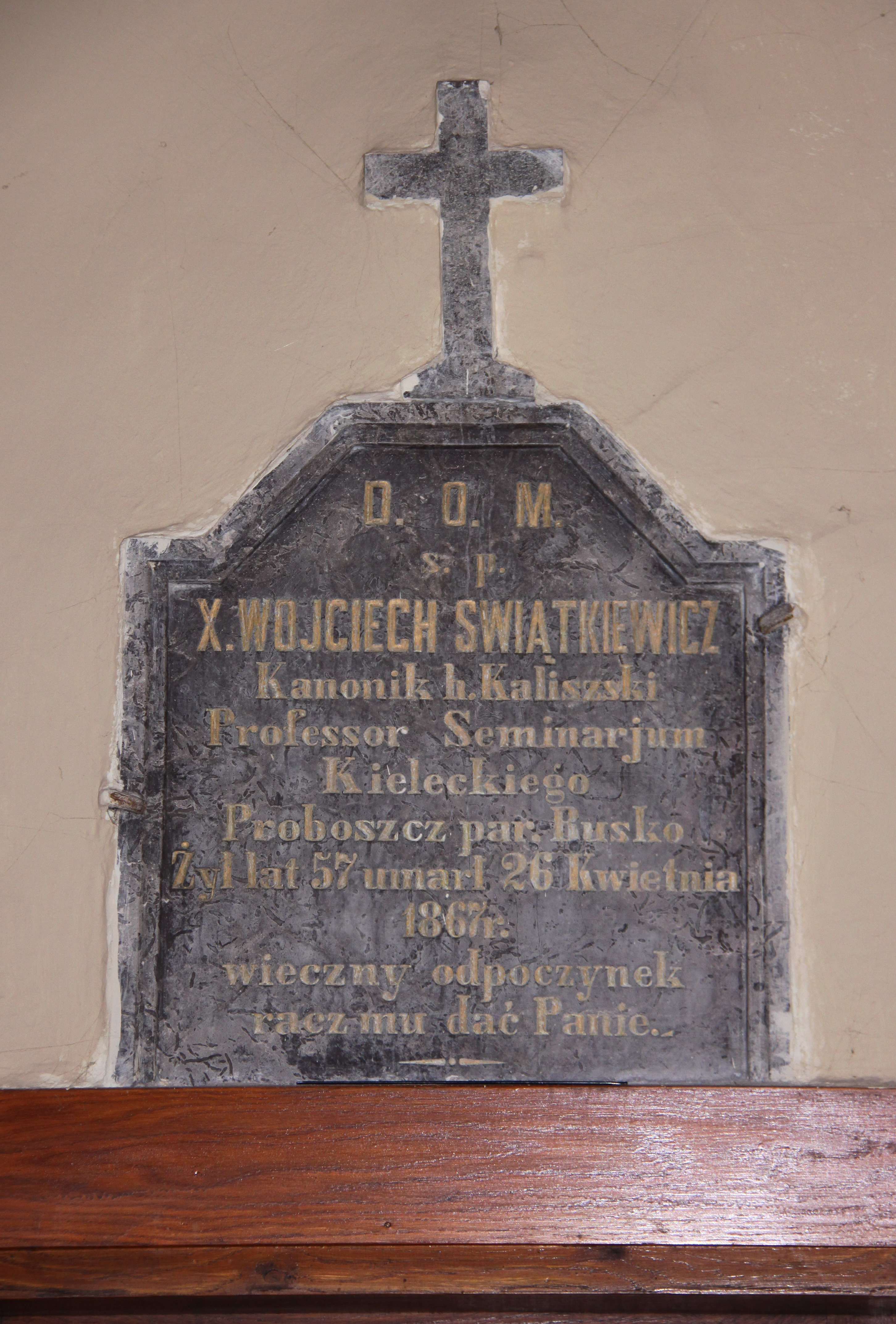 Busko-Zdrój, the Church of the Immaculate Conception of the Blessed Virgin Mary, porch - epitaph Fr. Wojciech Świątkiewicz., A professor Seminary in Kielce, and Busko pastor.